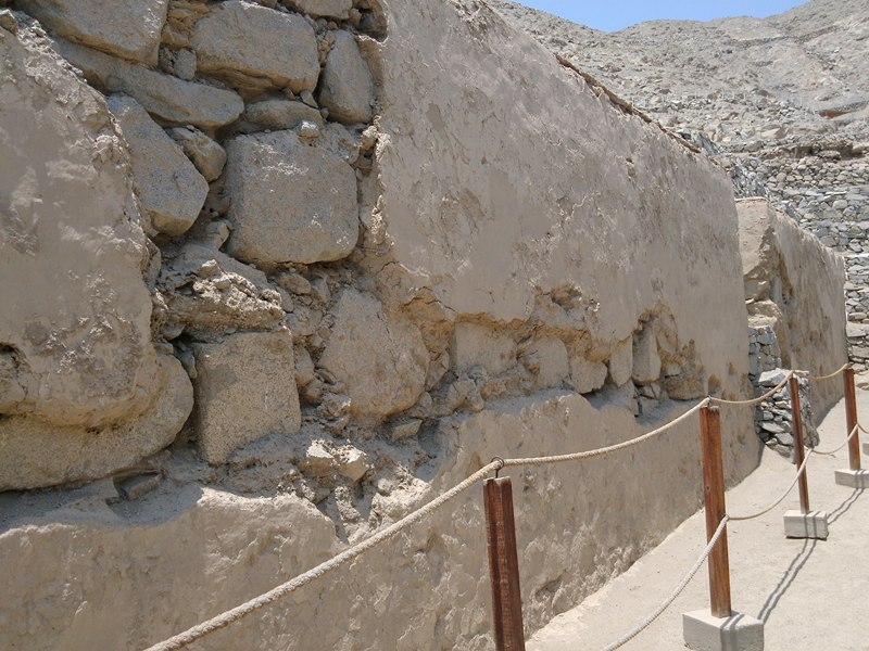 Sechin paredes en trabajo